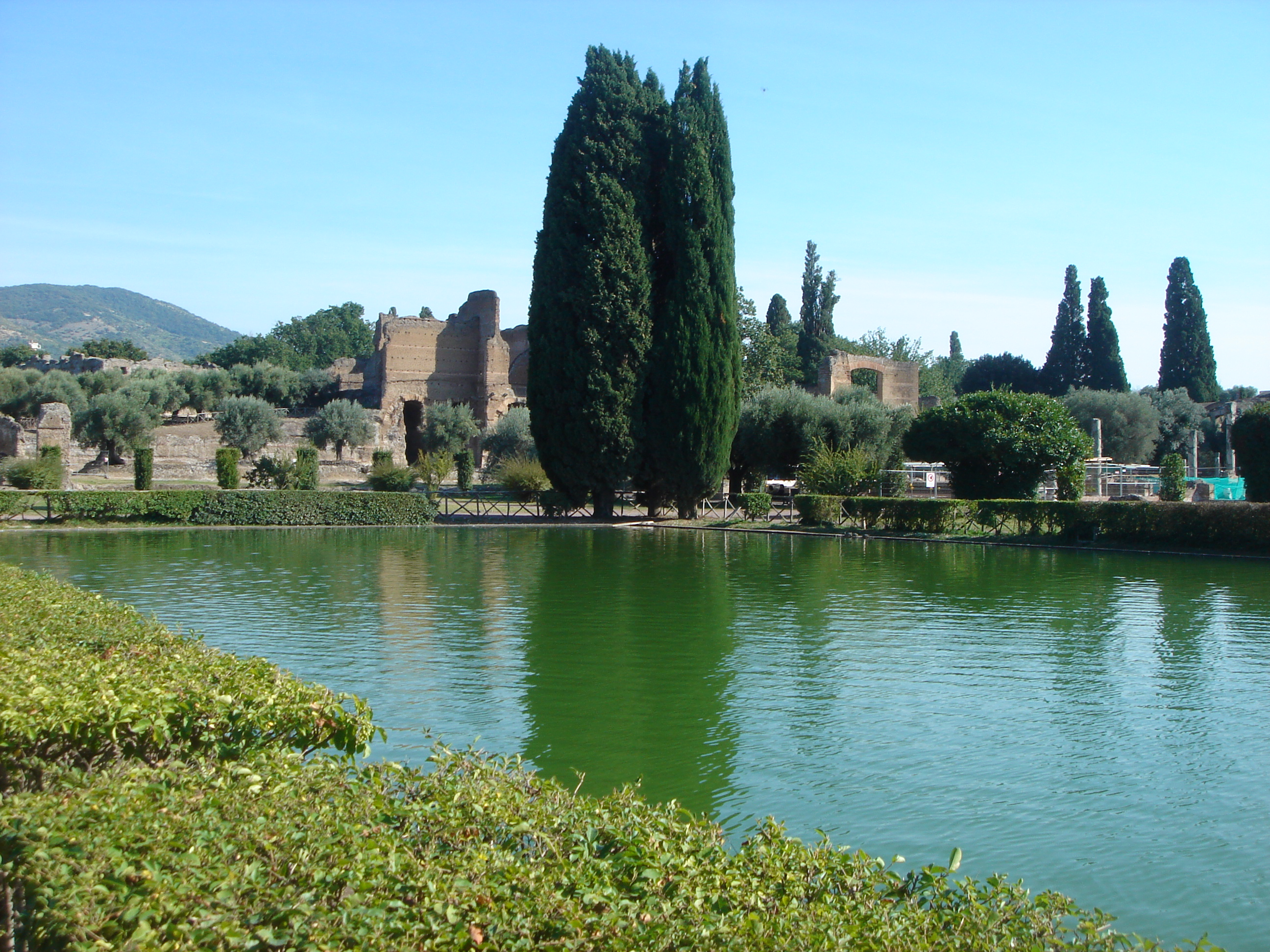 Pond of the Poikile at the Villa Adriana in Tivoli.